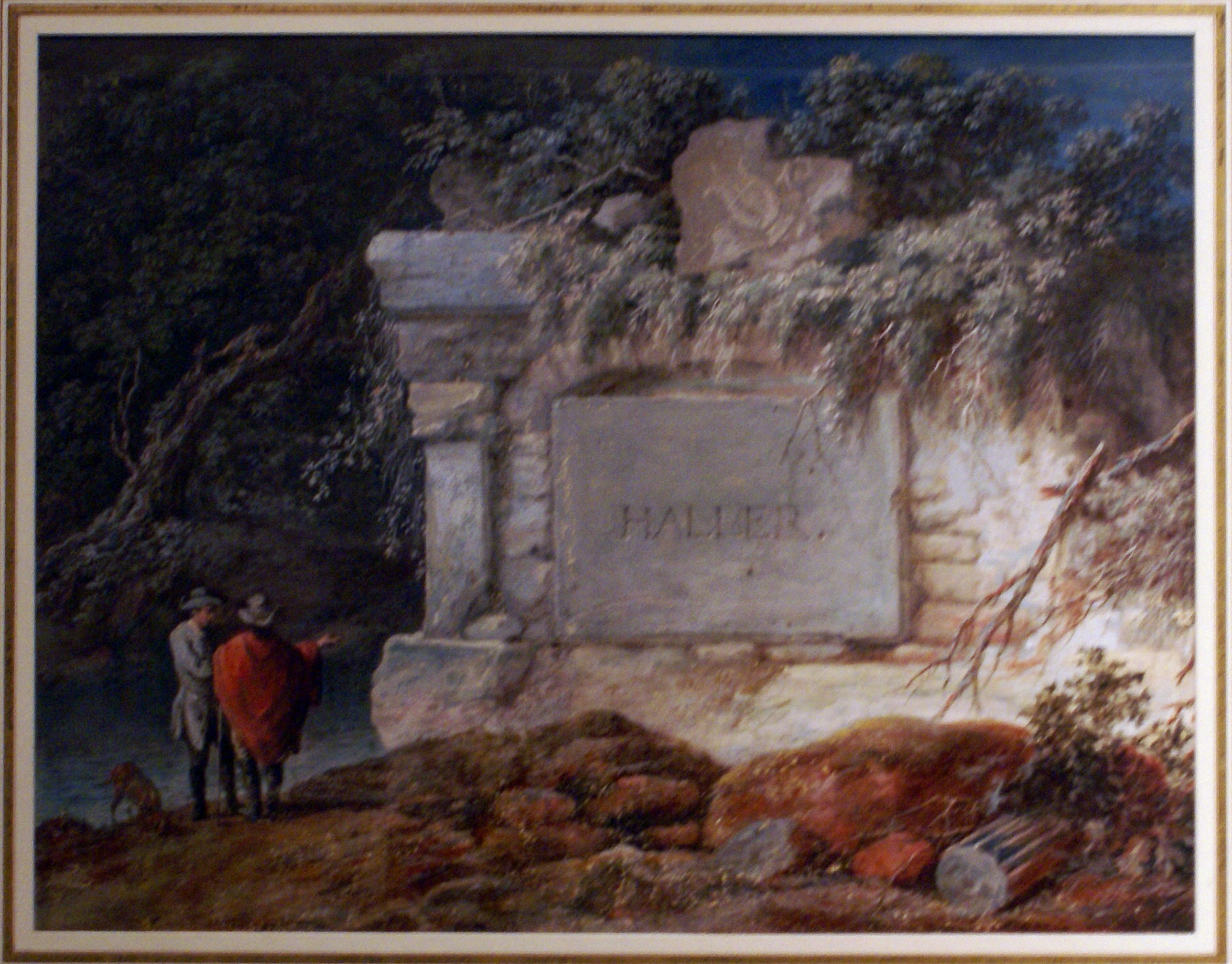 Painting of the (fictional) grave of Albrecht von Haller.